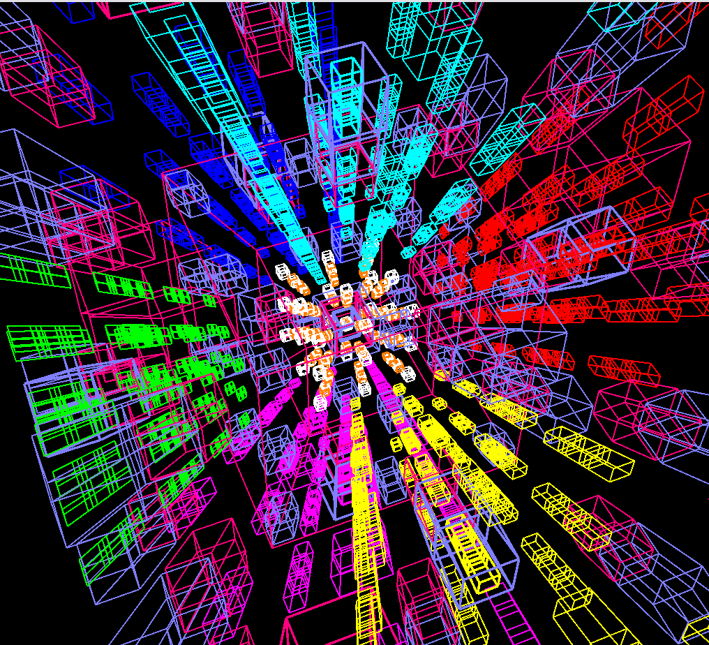 5D virtual 3^5 sequential move puzzle, close-up.